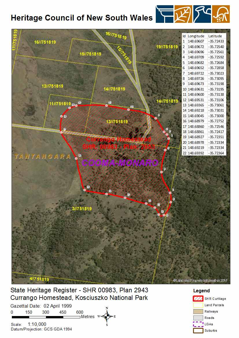 Currango Homestead: SHR Plan No 00983